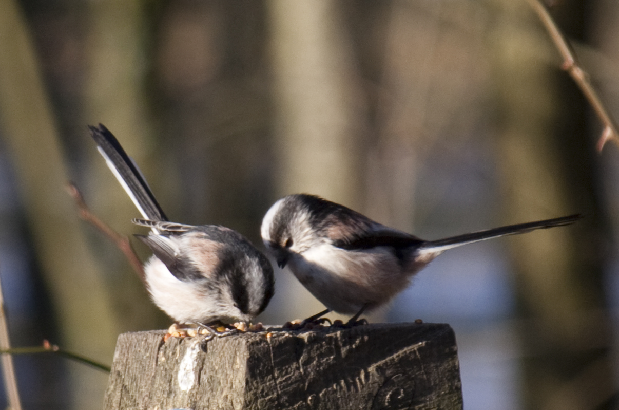 Long-tailed Tits Aegithalos caudatus, West Bromwich, England